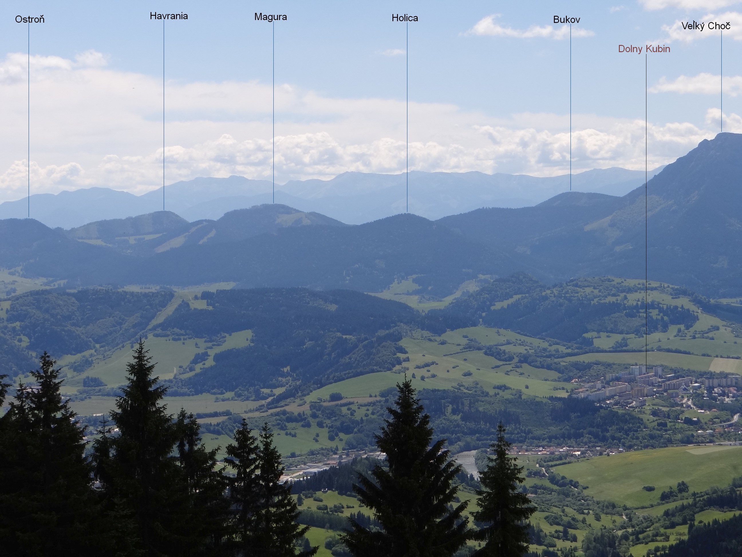 Sielnické vrchy. Vew from Chata na Kubínskej holi